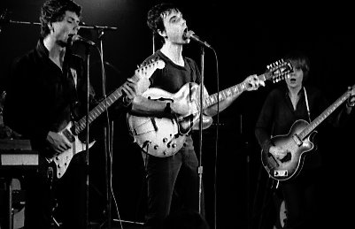 Horseshoe tavern, Toronto, May 13, 1978